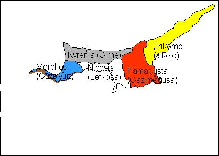 Districts map of Turkish administered Northern Cyprus